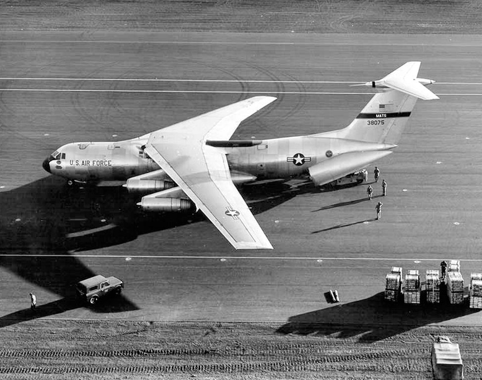 C-141 63-6075 60th MAW On the ramp at Tan Son Nhut AB, July 1966 Copyright: USAF Photo